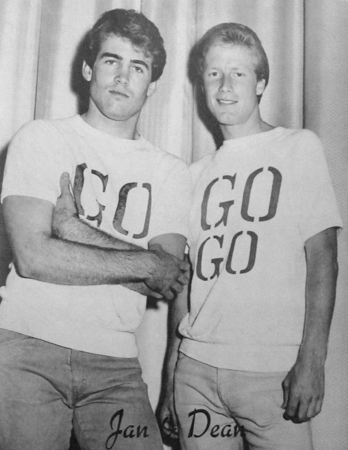 Photo of the musical duo Jan and Dean in 1964. The photo is from a WWDC (now WWRC) radio music survey.